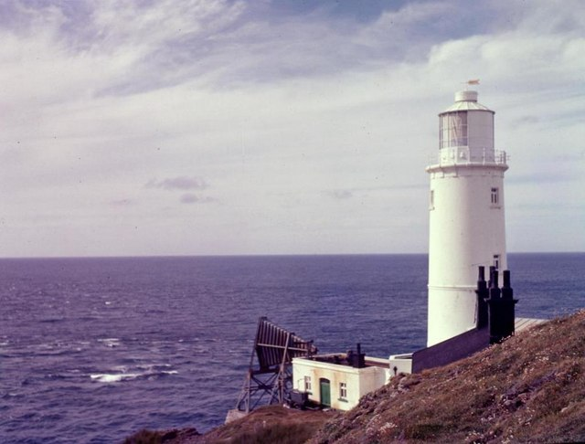 Lighthouse at Trevose Head The chimneys have gone in more recent photos.